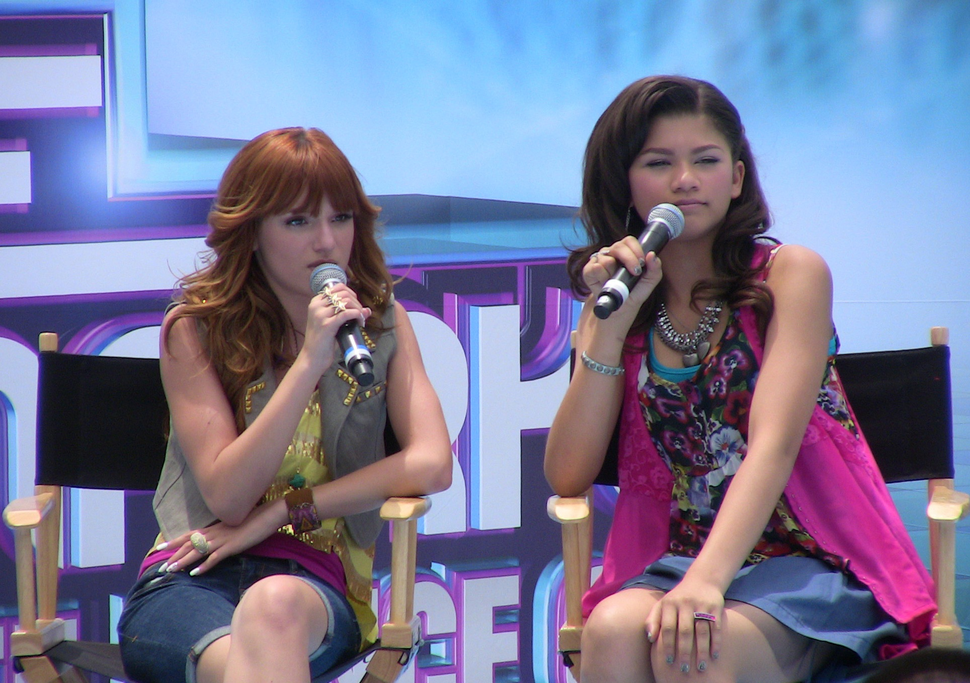 Bella Thorne and Zendaya at the "Make Your Mark: Ultimate Dance Off 'Shake It Up' edition